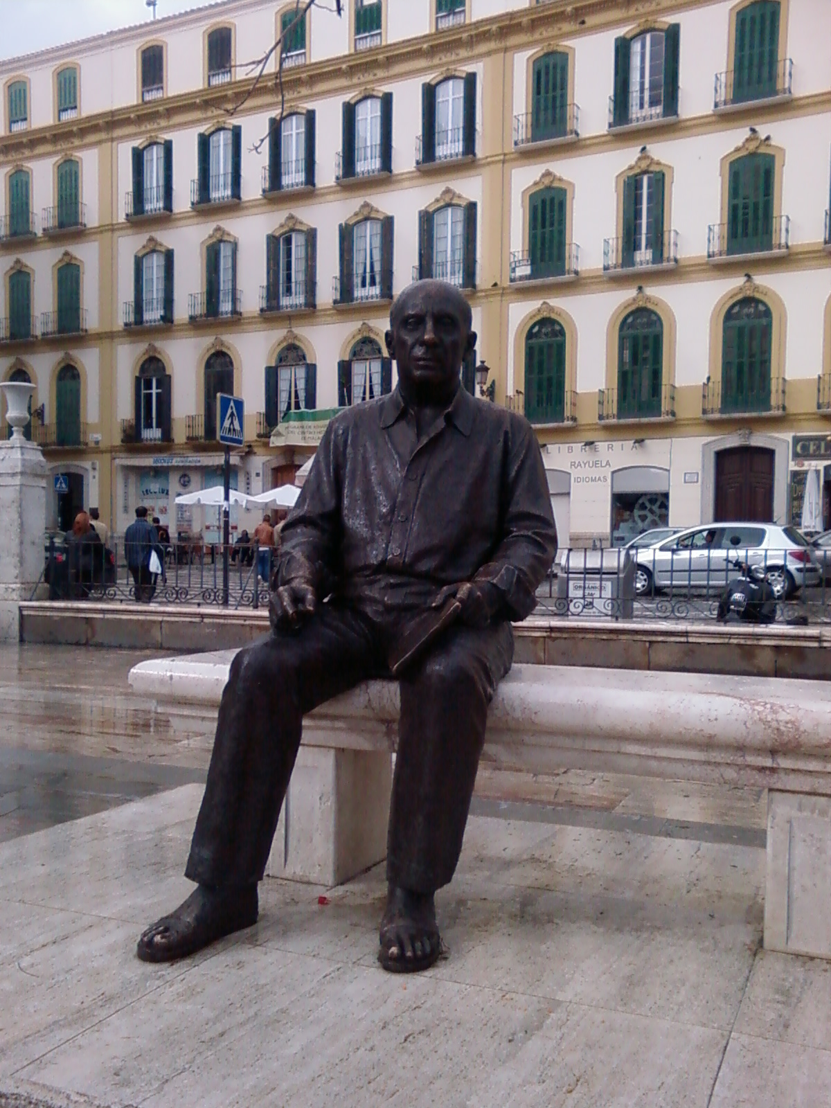 "Portrait of the Painter Pablo Ruiz Picasso" sculpture by Francisco López Hernández in La Merced Square, Málaga, Spain.